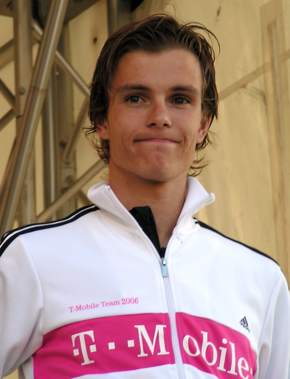 The German racing cyclist Linus Gerdemann at the team presentation for the Deutschland Tour 2006 in Düsseldorf, Germany.